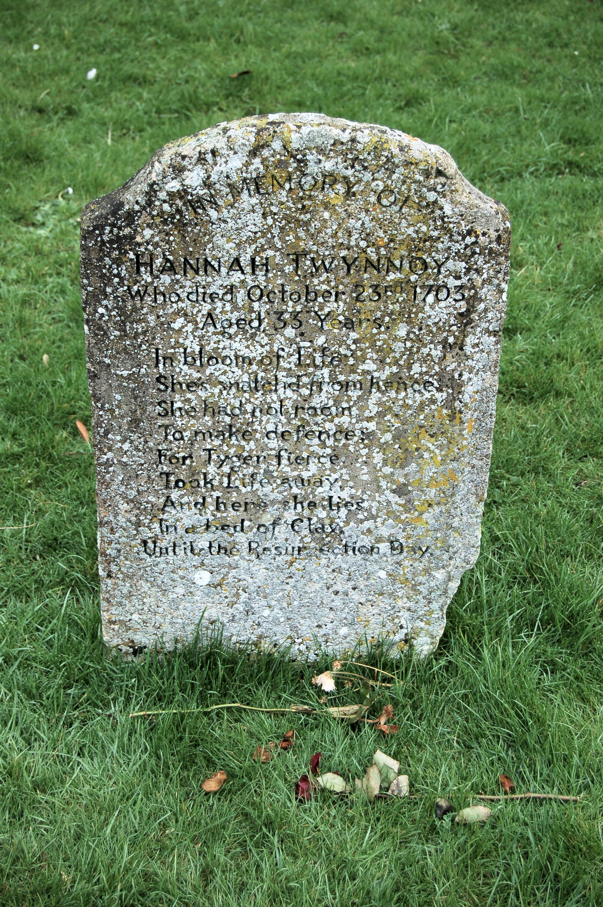 Hannah Twynnoy's gravestone in the churchyard of Malmesbury Abbey